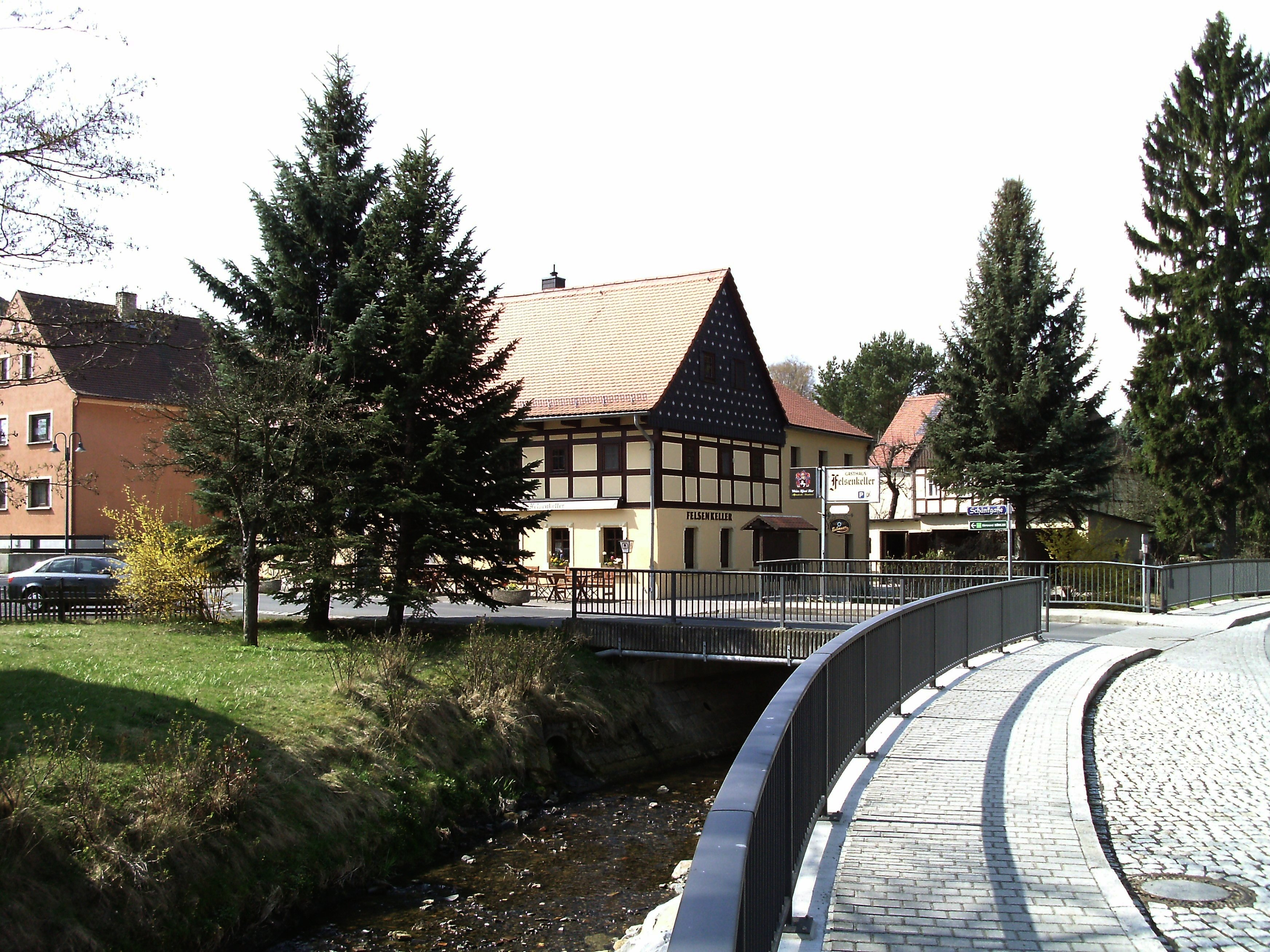 Near the Felsenkeller restaurant in Bertsdorf (Bertsdorf-Hörnitz, Görlitz district, Saxony)